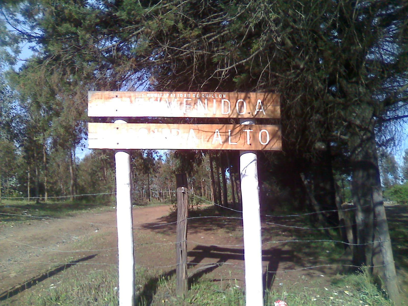 Imagen del Sector Liucura Alto en Cerro Negro